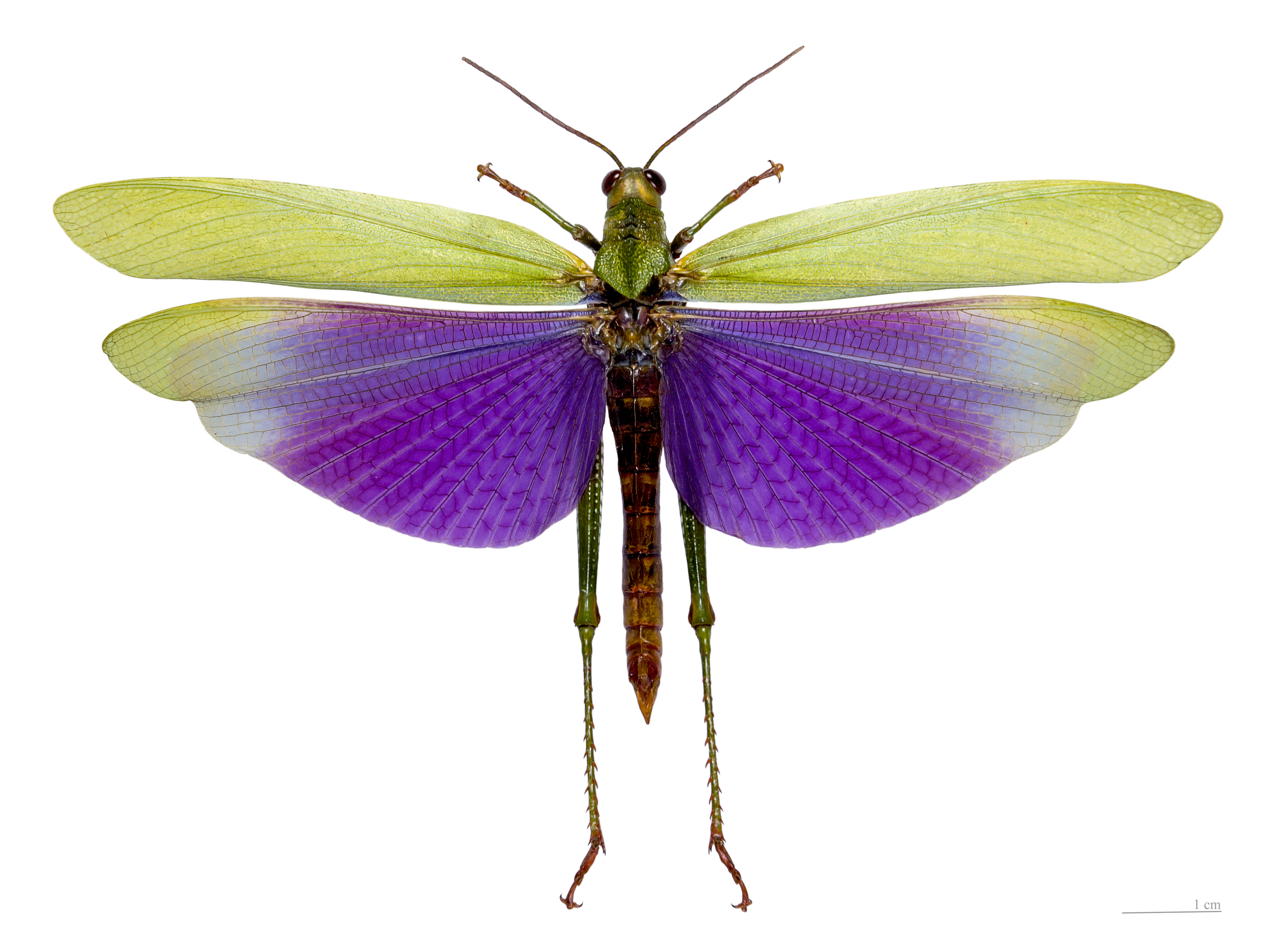 Male - Dorsal Locality: French Guiana